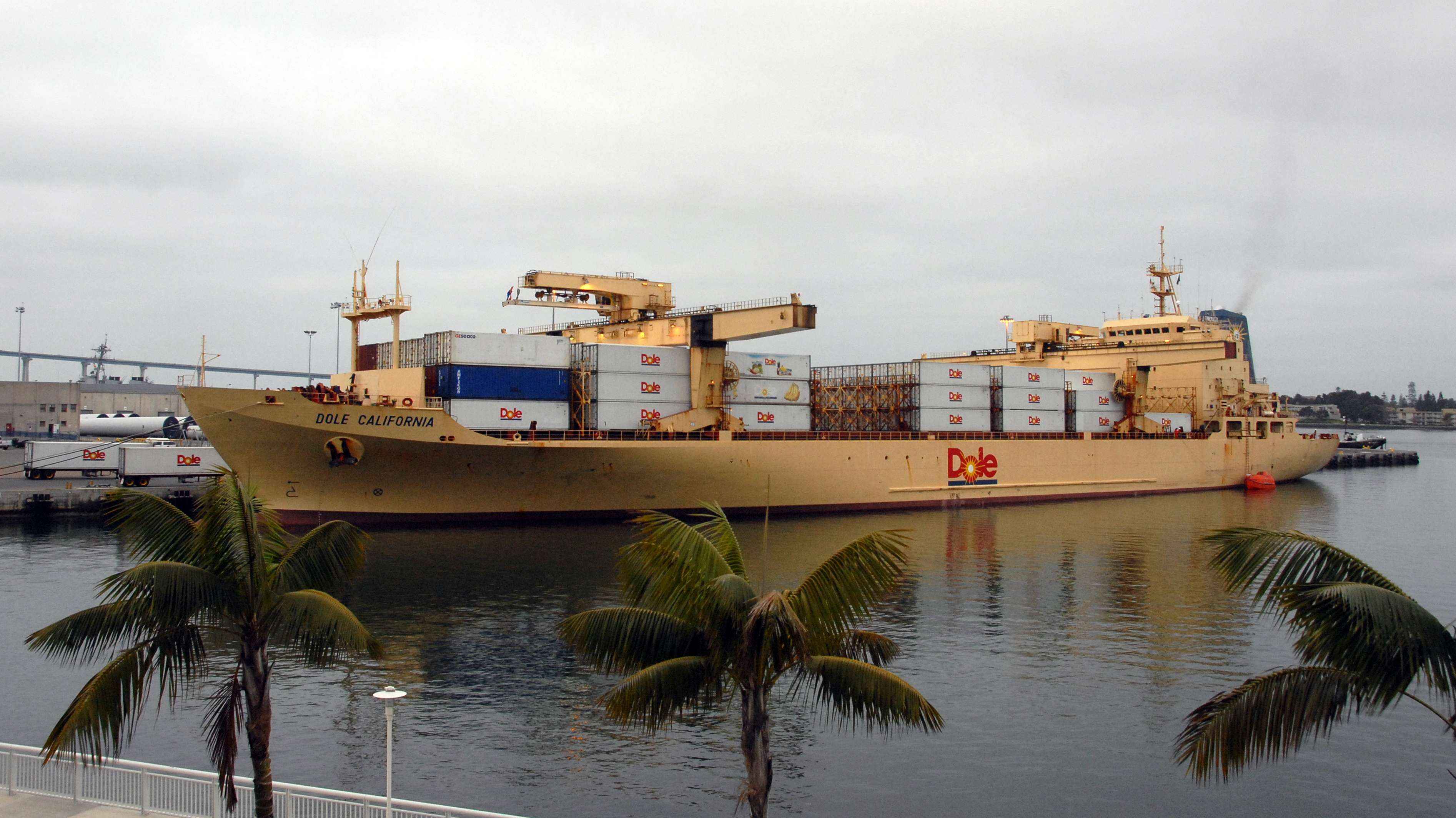 Container ship Dole California, Port of San Diego.